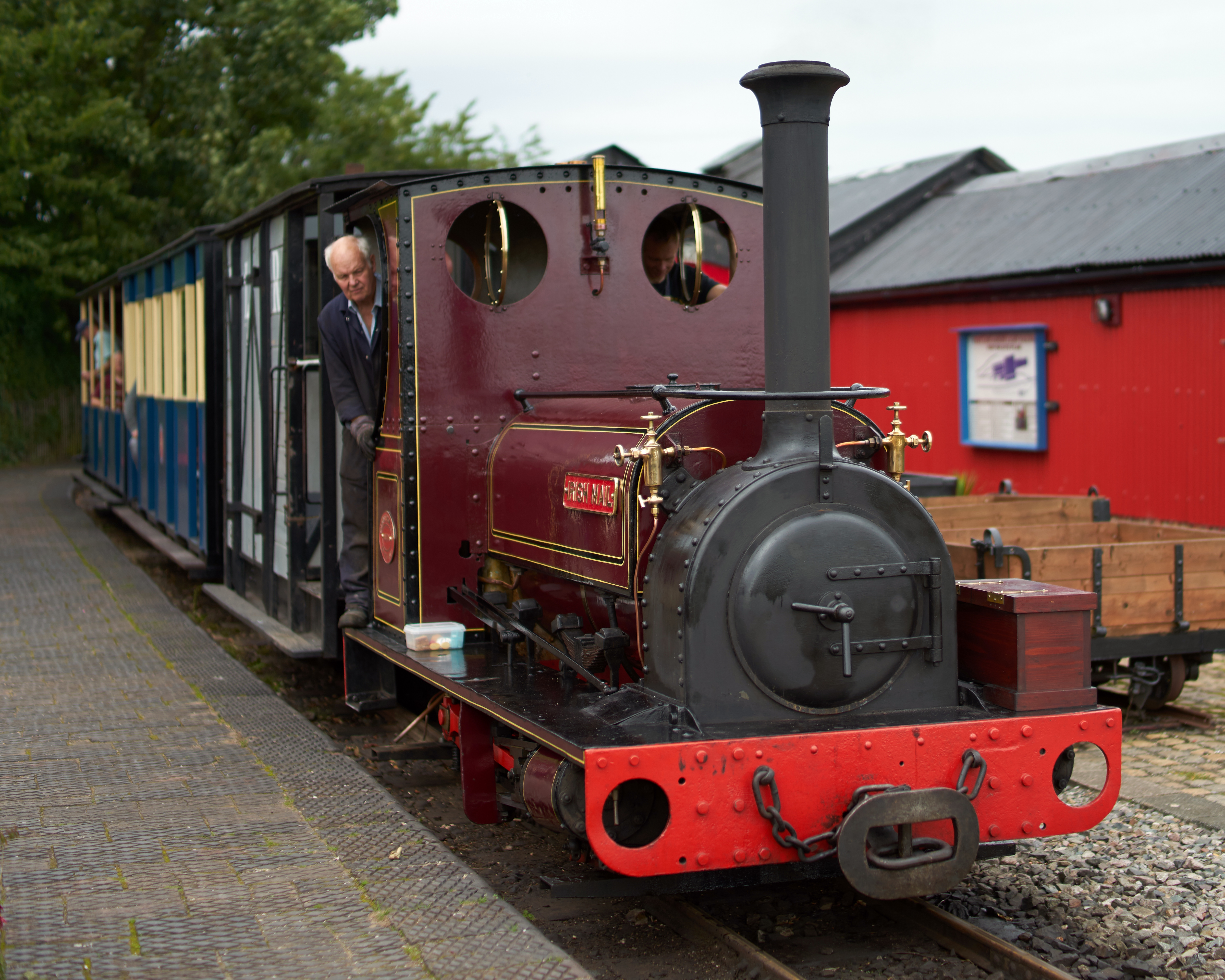 Irish Mail engine at the West Lancashire Light Railway, Hesketh Bank